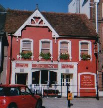 The George Public House, Petersfield, Hampshire. Photo taken by Publunch.